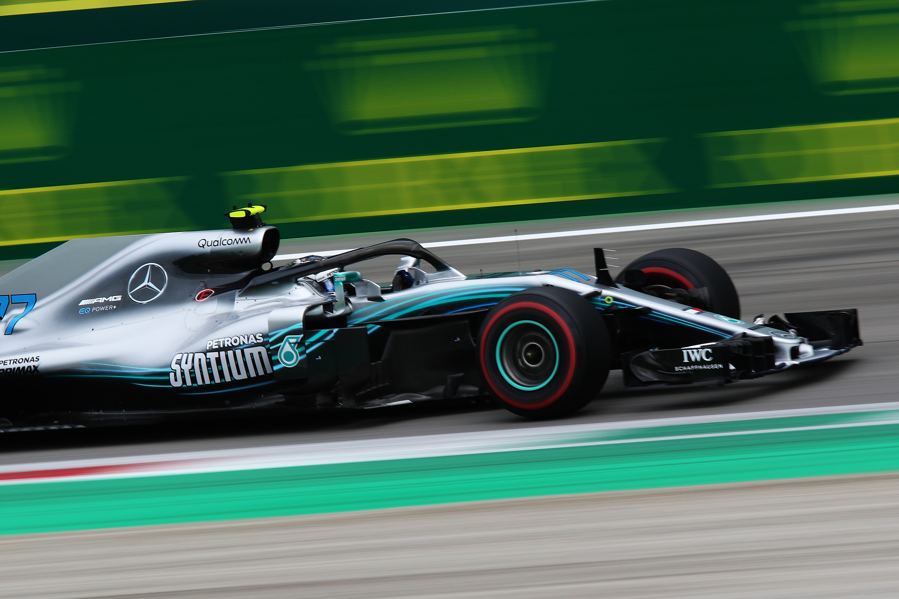 2018 Italian Grand Prix.